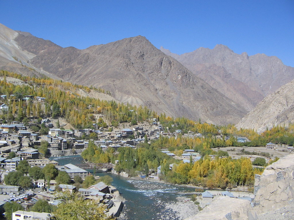 Panorama of Kargil Town